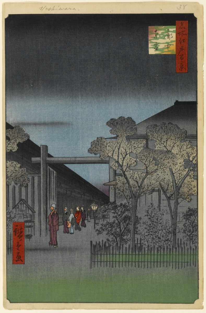 Part of the series One Hundred Famous Views of Edo, no. 038, part 1: Spring.